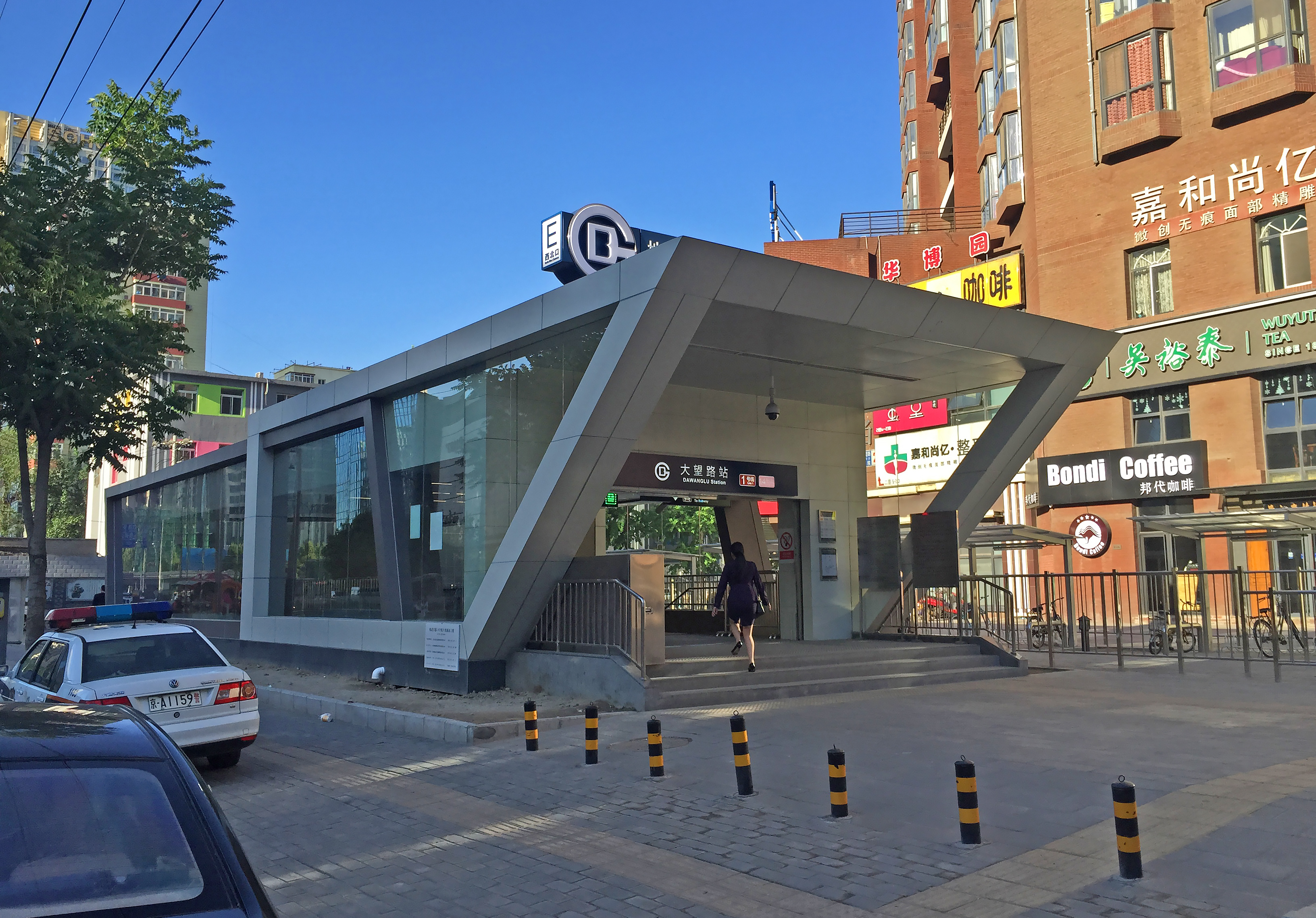 There isn't even a convenience shop around?